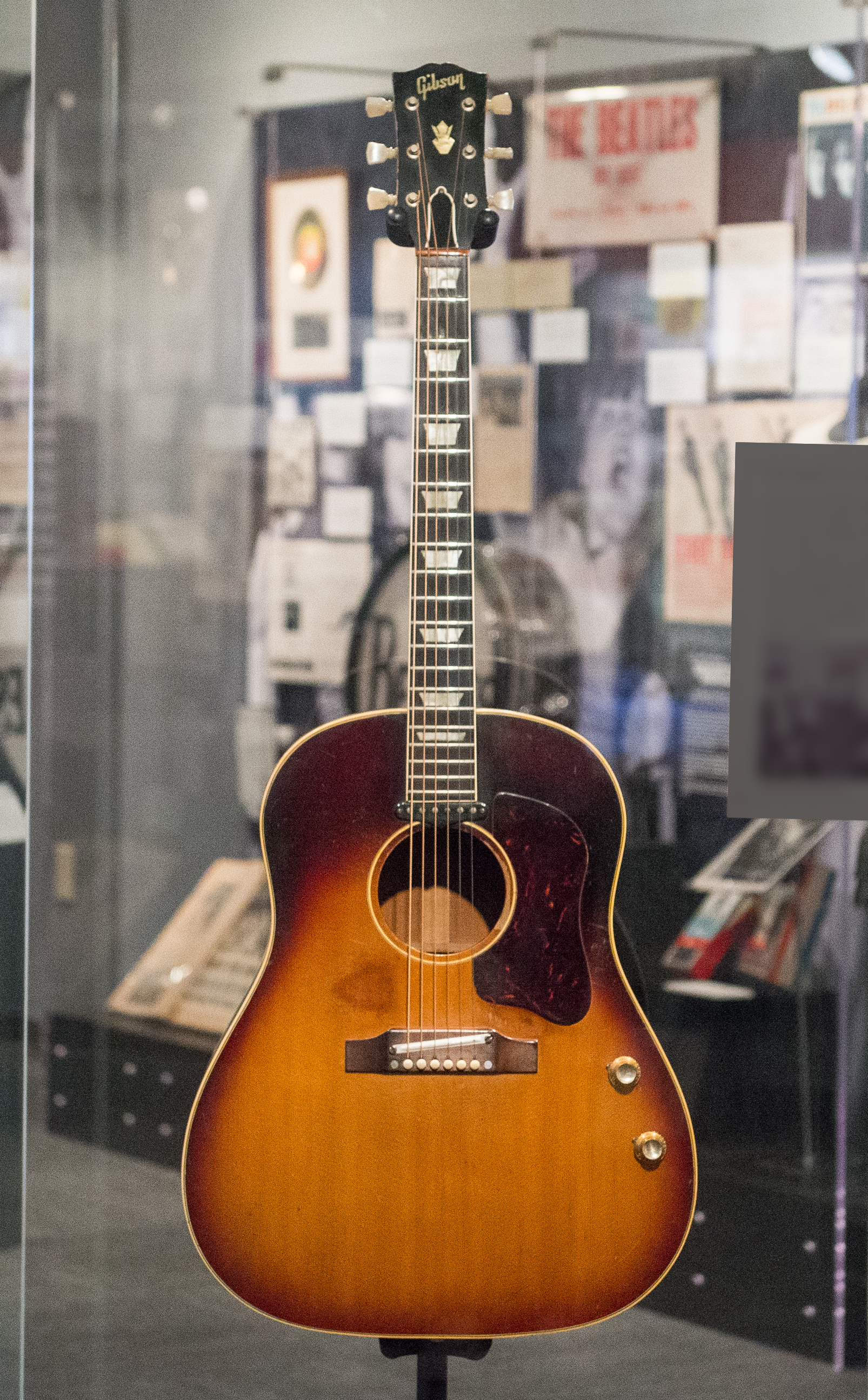 "Ladies and Gentlemen...The Beatles!", a traveling exhibit curated by the GRAMMY Museum® and Fab Four Exhibits, is open at the LBJ Presidential Library from June 13, 2015 through January 10, 2016. More than 400 pieces of memorabilia, records, rare photographs, tour artifacts, video, and instruments are on display, including John Lennon's missing Gibson J-160E guitar. The guitar is on display for two weeks only, from June 13 until June 29, 2015. Photo by Lauren Gerson. Flickr album "Exhibit: "Ladies and Gentlemen... the Beatles!"" by LBJ Foundation ""Ladies and Gentlemen…The Beatles!" is a traveling exhibit curated by the GRAMMY Museum® and Fab Four Exhibits that explores the impact The Beatles' arrival had on American pop culture, including fashion, art, advertising, media and music, from early 1964 through mid-1966 – when the British boy band was at its peak. On display will be more than 400 pieces of memorabilia, records, rare photographs, tour artifacts, video, and instruments from private collectors and the GRAMMY Museum, including the original Ludwig drum head Ringo played on "The Ed Sullivan Show." It even includes an oral history booth where visitors can leave their own impressions of the timeless group. Photos by Lauren Gerson."